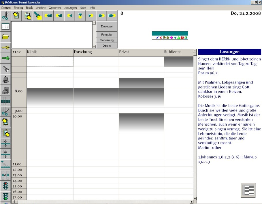 CPA Software with daily watchwords